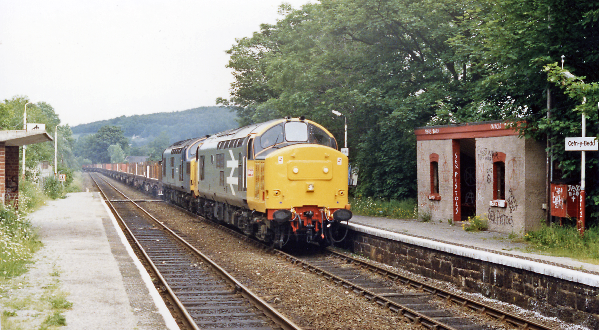 Cefn-y-Bedd station in 1986, with train. View northward, towards Hawarden Bridge and Bidston: ex-GC (Wrexham, Mold & Connah's Quay), Seacombe - Bidston - Hawarden Bridge - Wrexham Central line. This line has, surprisingly, remained active both for passengers and freight. The train depicted is southbound from Shotton Steelworks, either with steel slabs or empty - [I'm not sure which!], double-headed by Class 37 Type 3 Diesel locomotives Nos. 37.696 and 37.241. Note the appalling state of the station shelter, with graffiti.